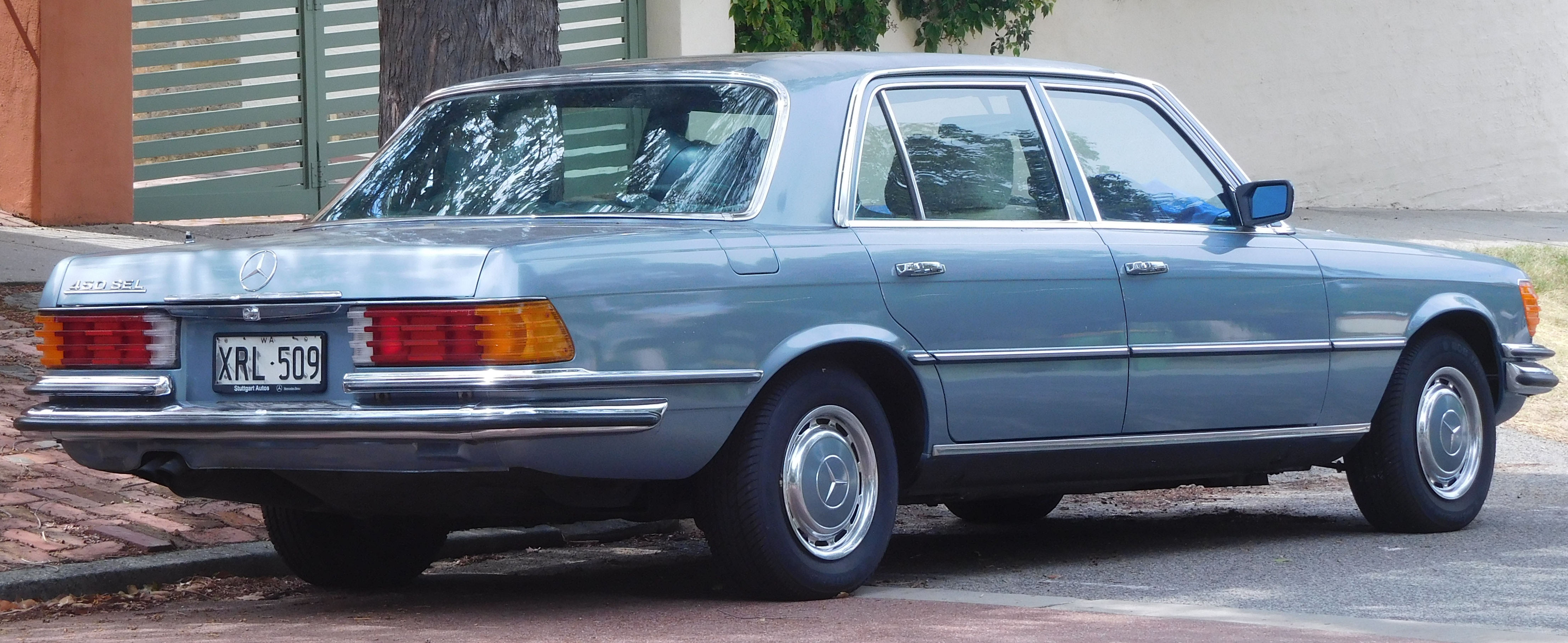 1973–1980 Mercedes-Benz 450 SEL (V 116) sedan. Photographed in West Leederville, Western Australia, Australia.